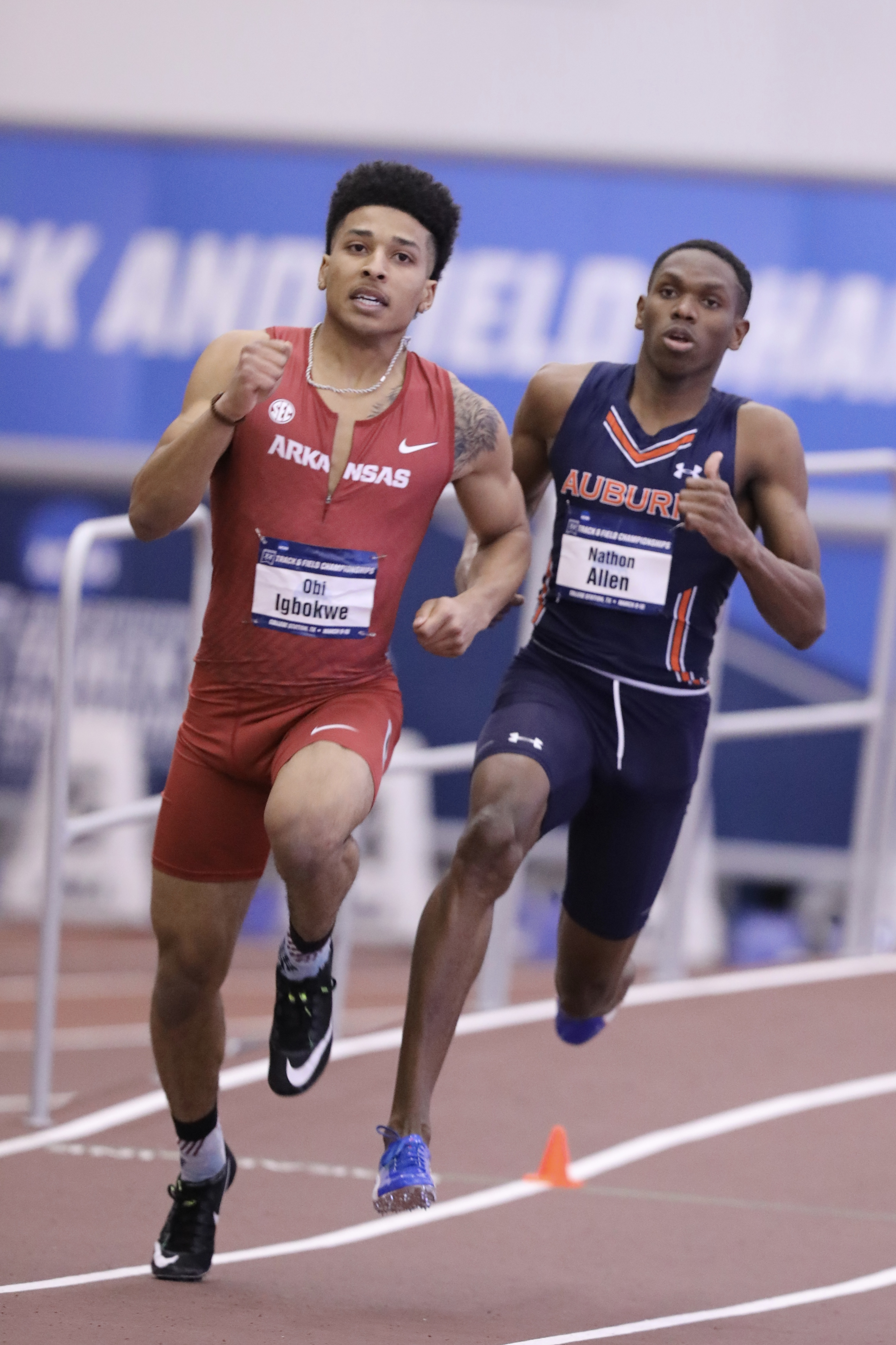 2018 NCAA Division I Indoor Track and Field Championships